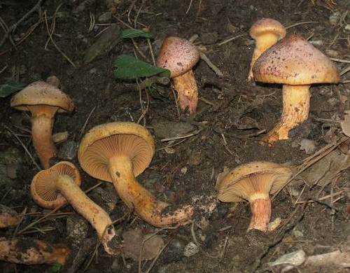 Chroogomphus helveticus (Pilat) Kuthan & Singer